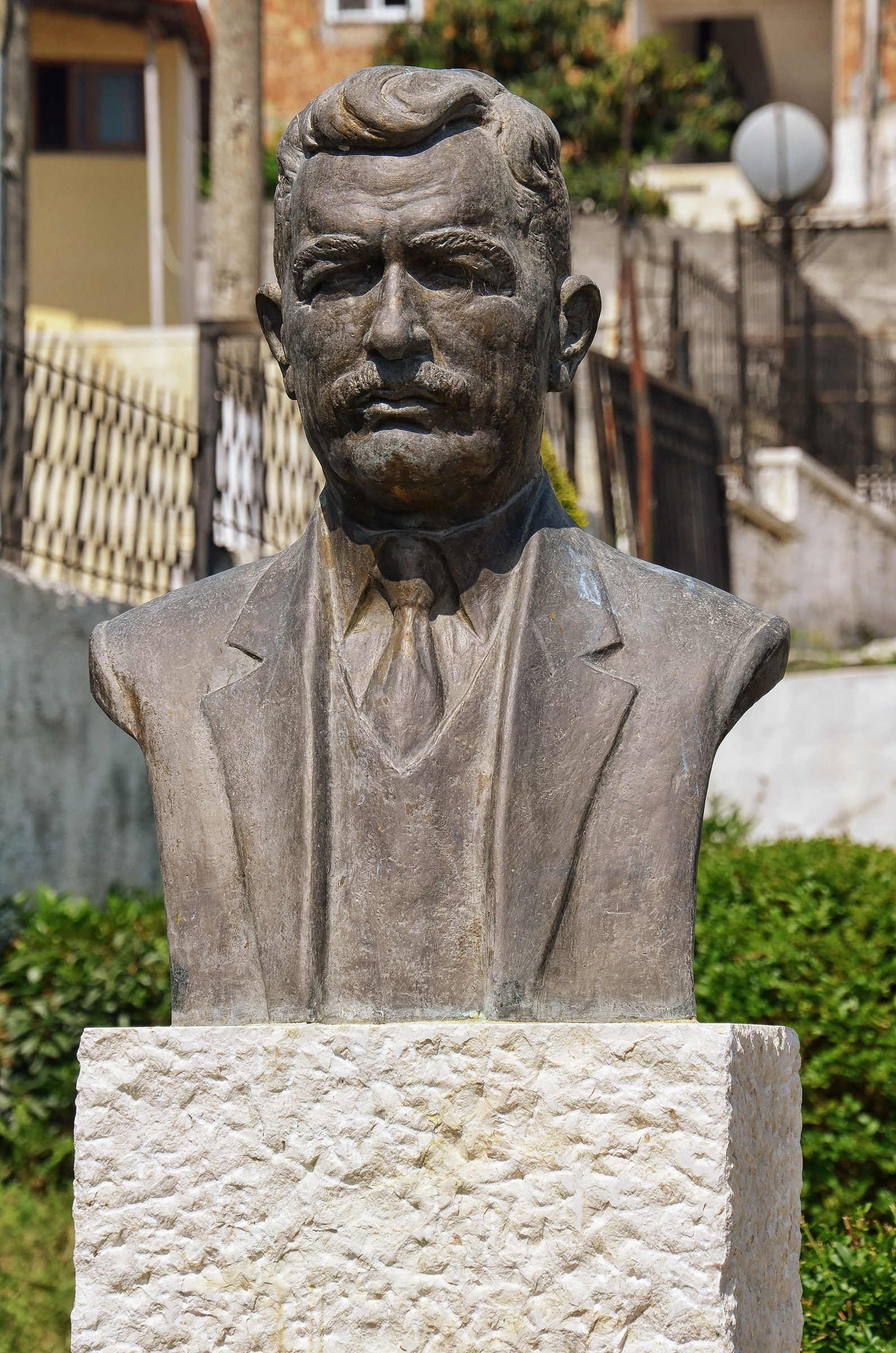 The bust of Sylejman Delvina in the yard of the Congress of Lushnjë Museum in Lushnjë, Albania